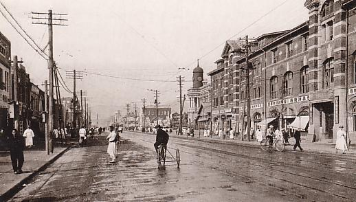 Shoro (Jongno) in Keijo (Seoul). During Japanese rule of Colonial Korea period (1910-1945).